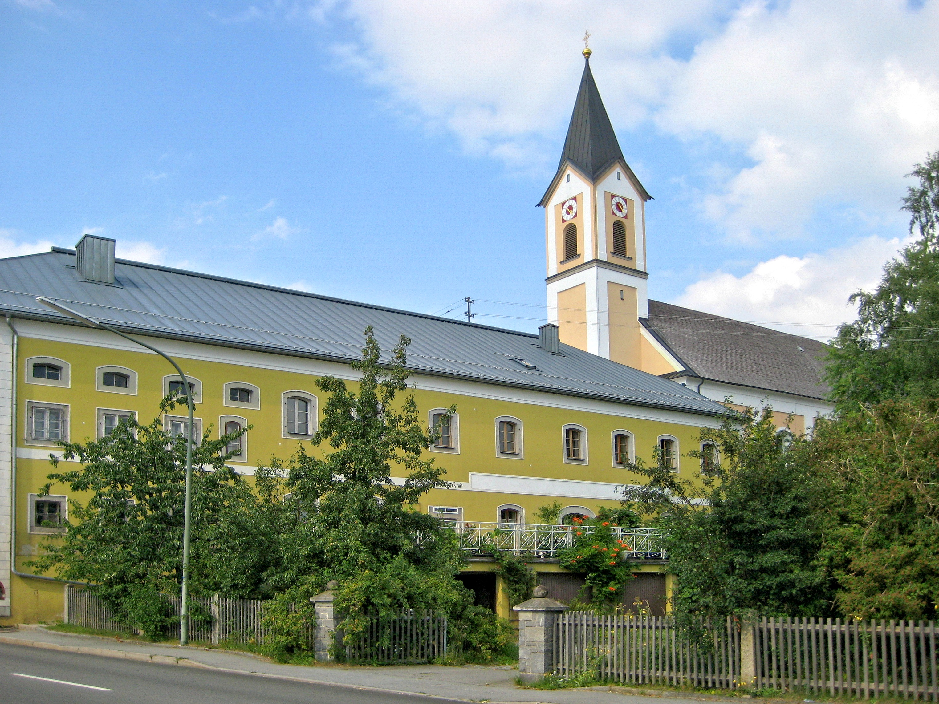 Breitenberg, historic grocery store with Parish Church of St Raymond of Peñafort in background.